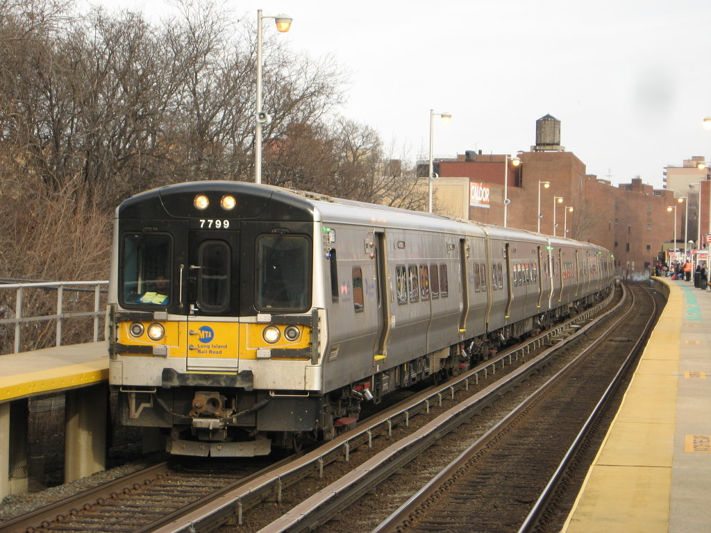 LIRR Port Washington Branch train, led by M7 #7799, enters the Flushing station.